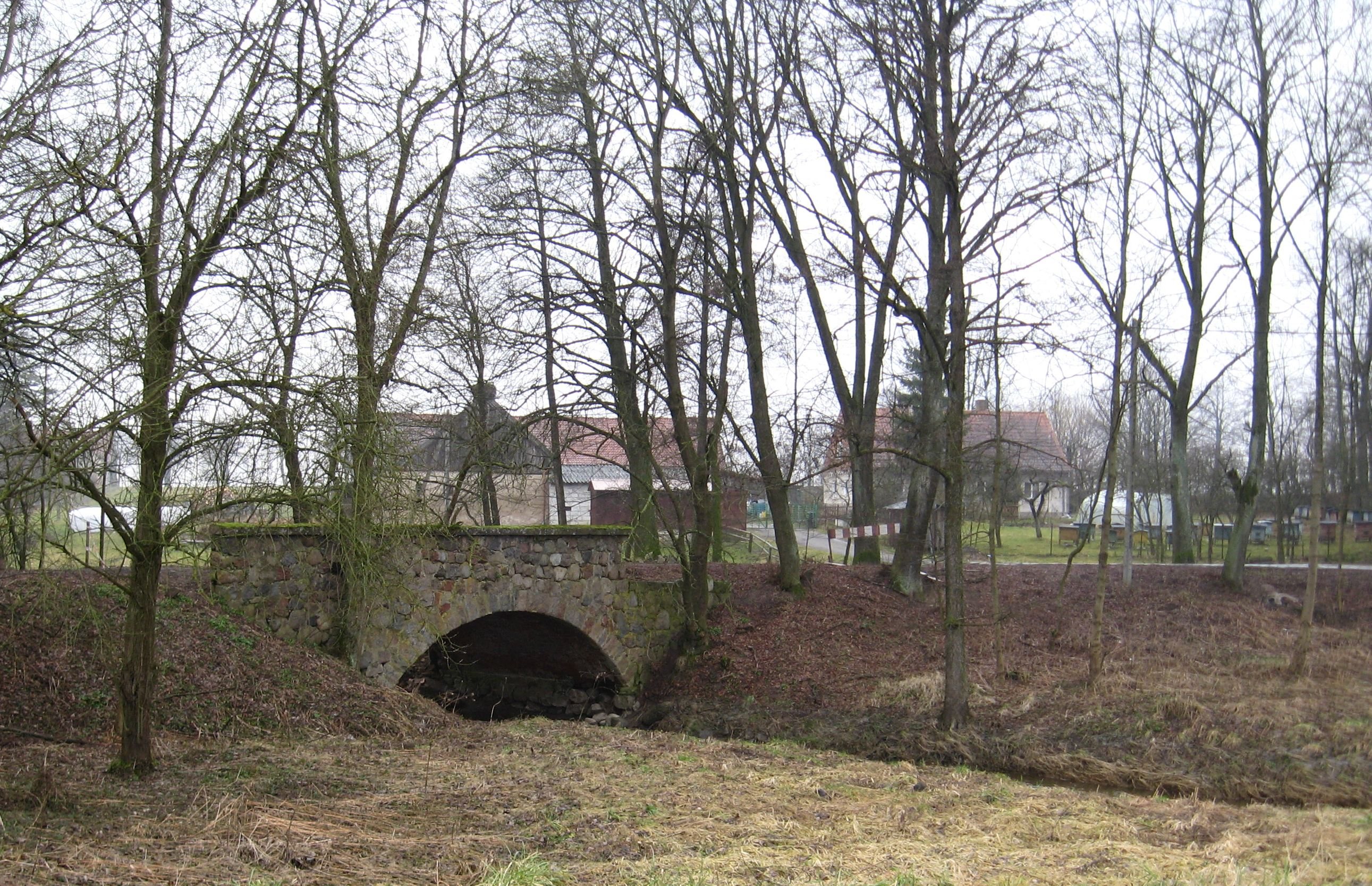 Asuny in Poland - OpenStreetMap (Info)